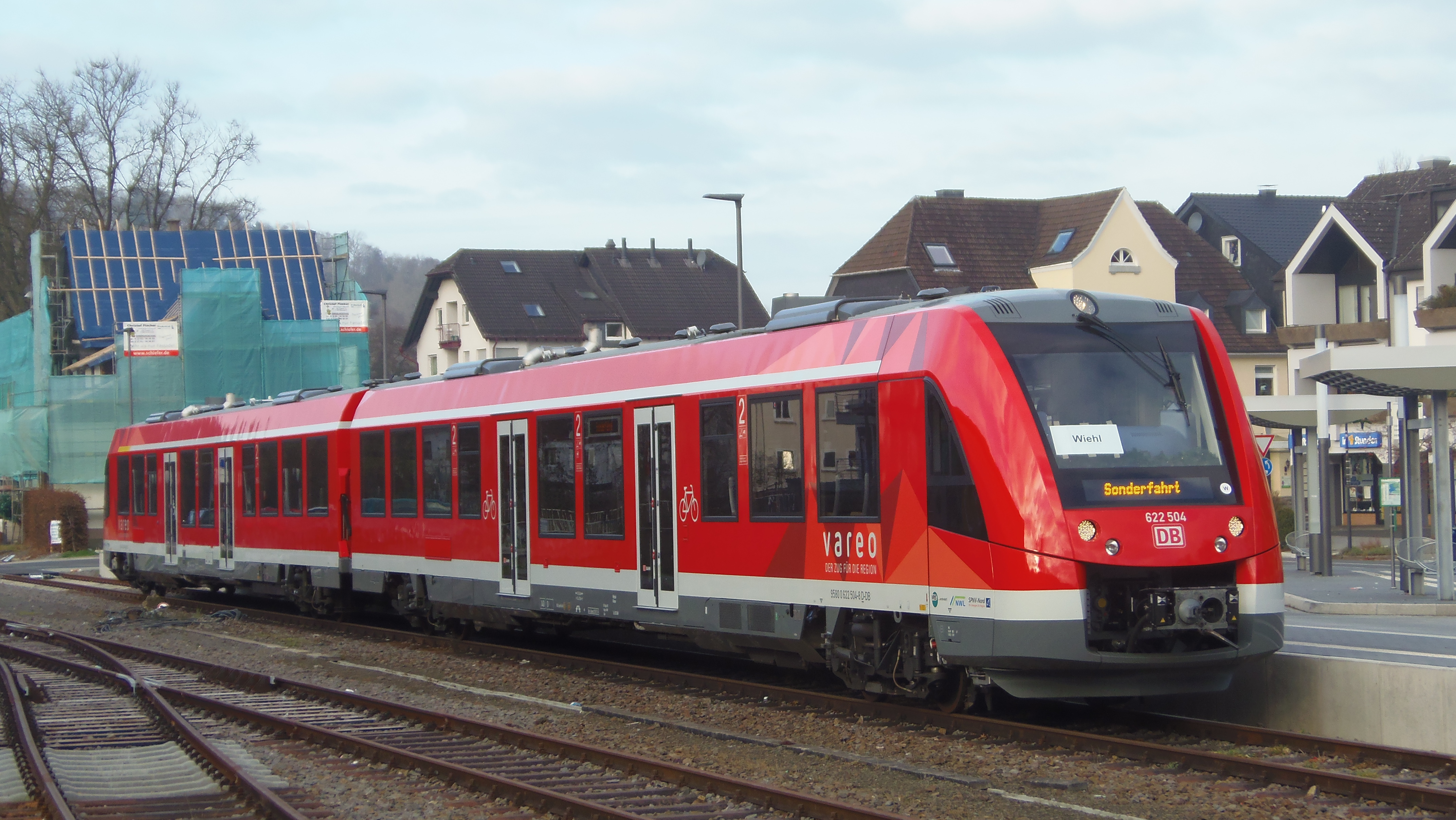 Railcar of DB Regio in Wiehl